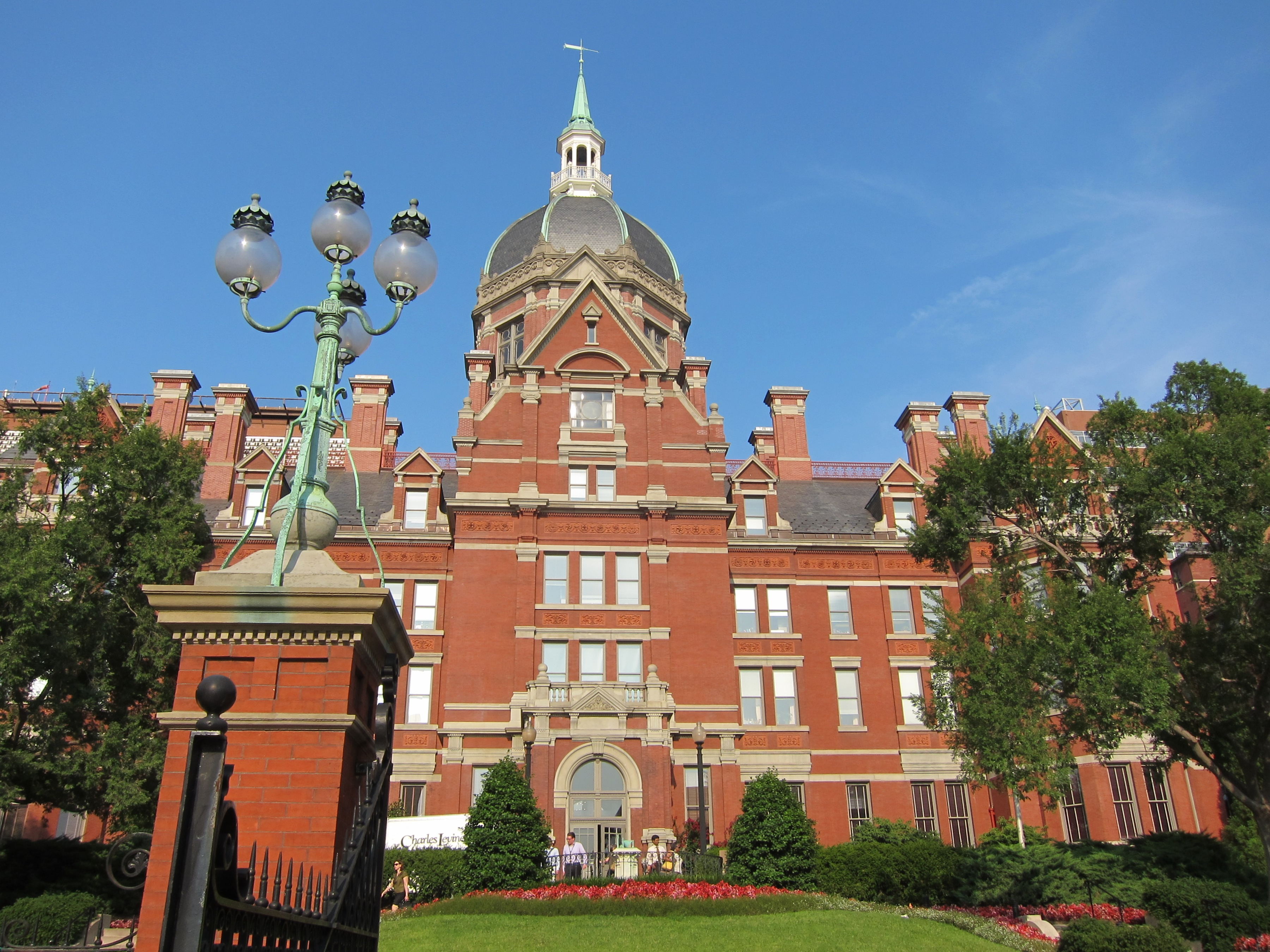 Johns Hopkins' Historic Dome